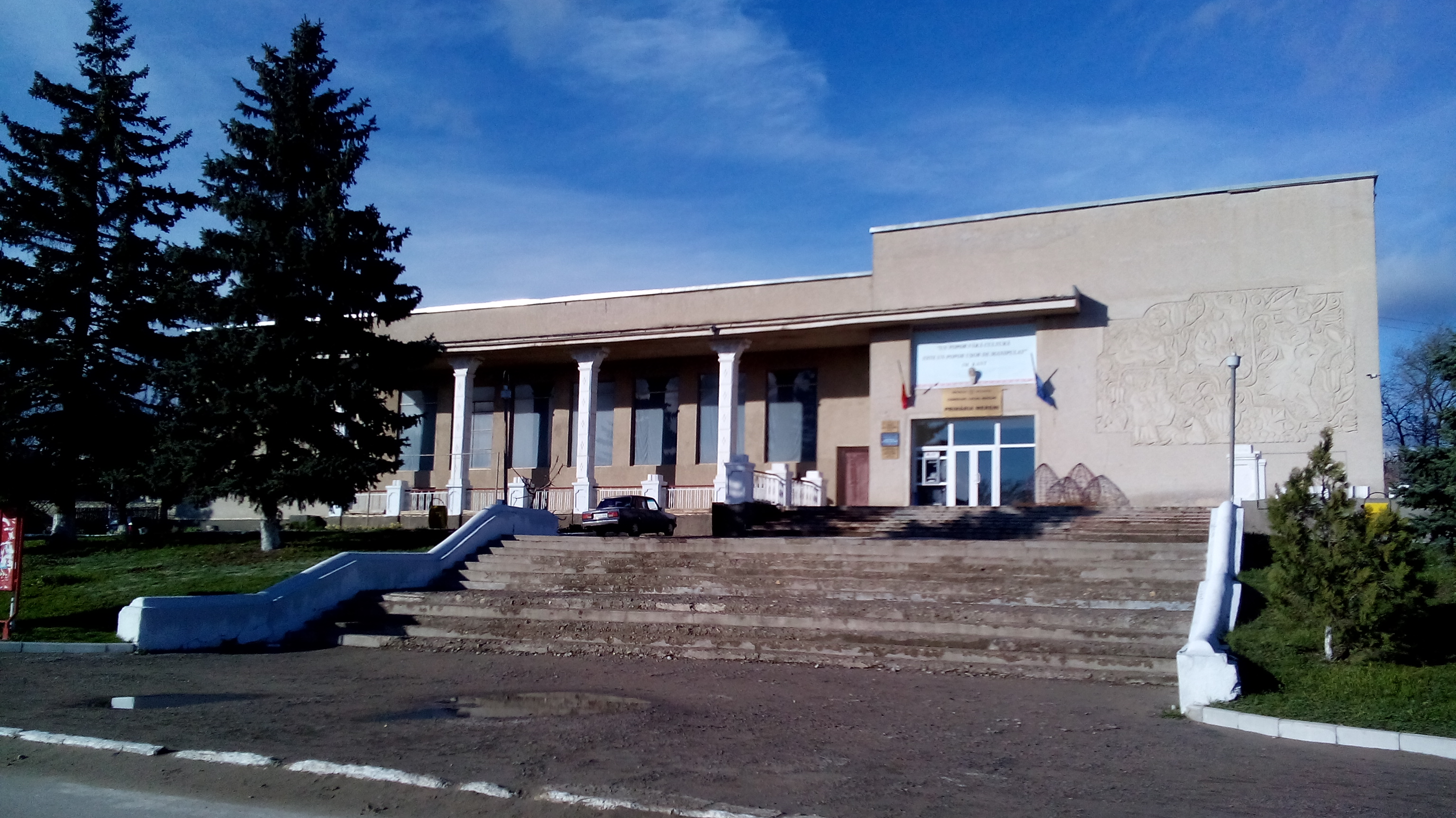 Town hall of Mereni, Anenii Noi District